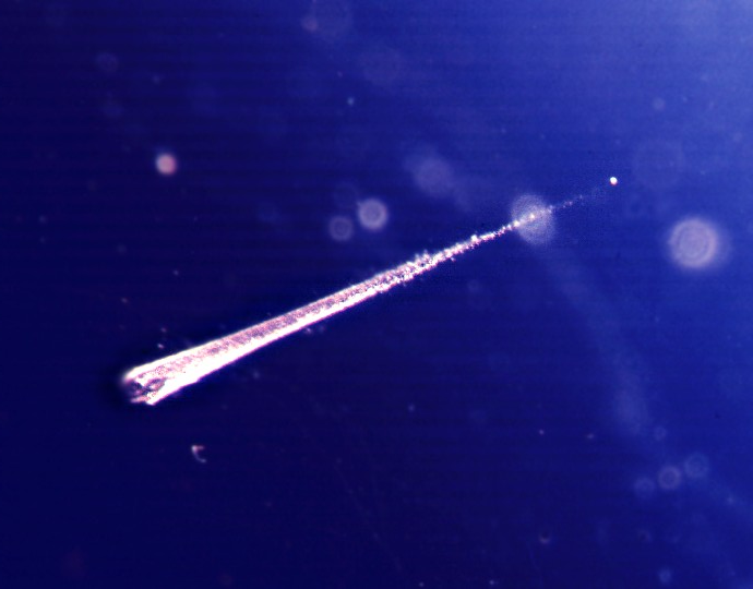 A 1.5 mm long impact track of a meteoroid captured in aerogel exposed to space by the European Retrievable Carrier (EURECA) spacecraft launched by STS-46 and recovered by STS-57. The wide end (open end) of the "carrot" is the location of hypervelocity entry into the 0.05 g/cc aerogel. As the particle is slowed by the aerogel the track narrows to a point. The 10 micron projectile is seen at the tip of the "carrot".